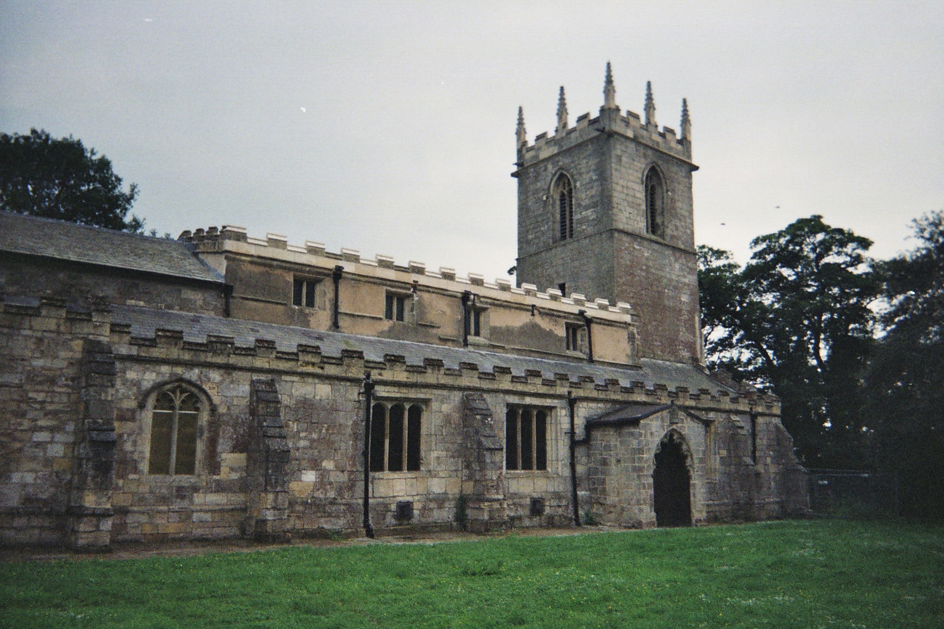 Nave and west tower of St Andrew's parish church, Epworth, Lincolnshire, seen from the northeast